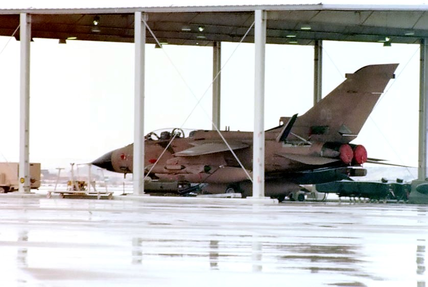 Royal Saudi Air Force Tornado (Interdictor Strike [IDS] variant) under ready shelter. King Abdul Aziz Royal Saudi Air Base flight line and 'Half-Moon Bay' Rest and Recreation Center, 14 January 1991, XVIII Airborne Corps History Office photograph.